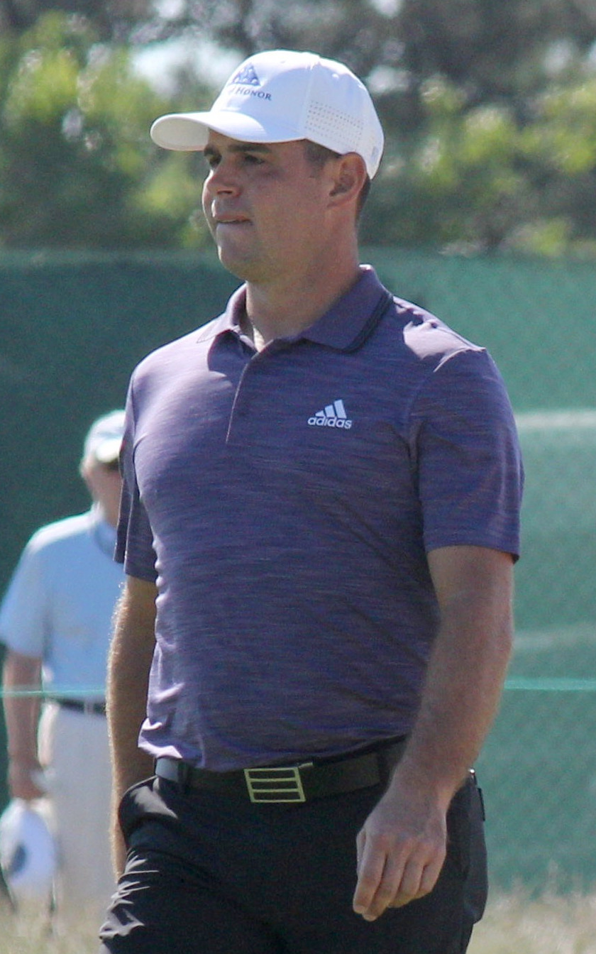 Gary Woodland at the 2018 US Open